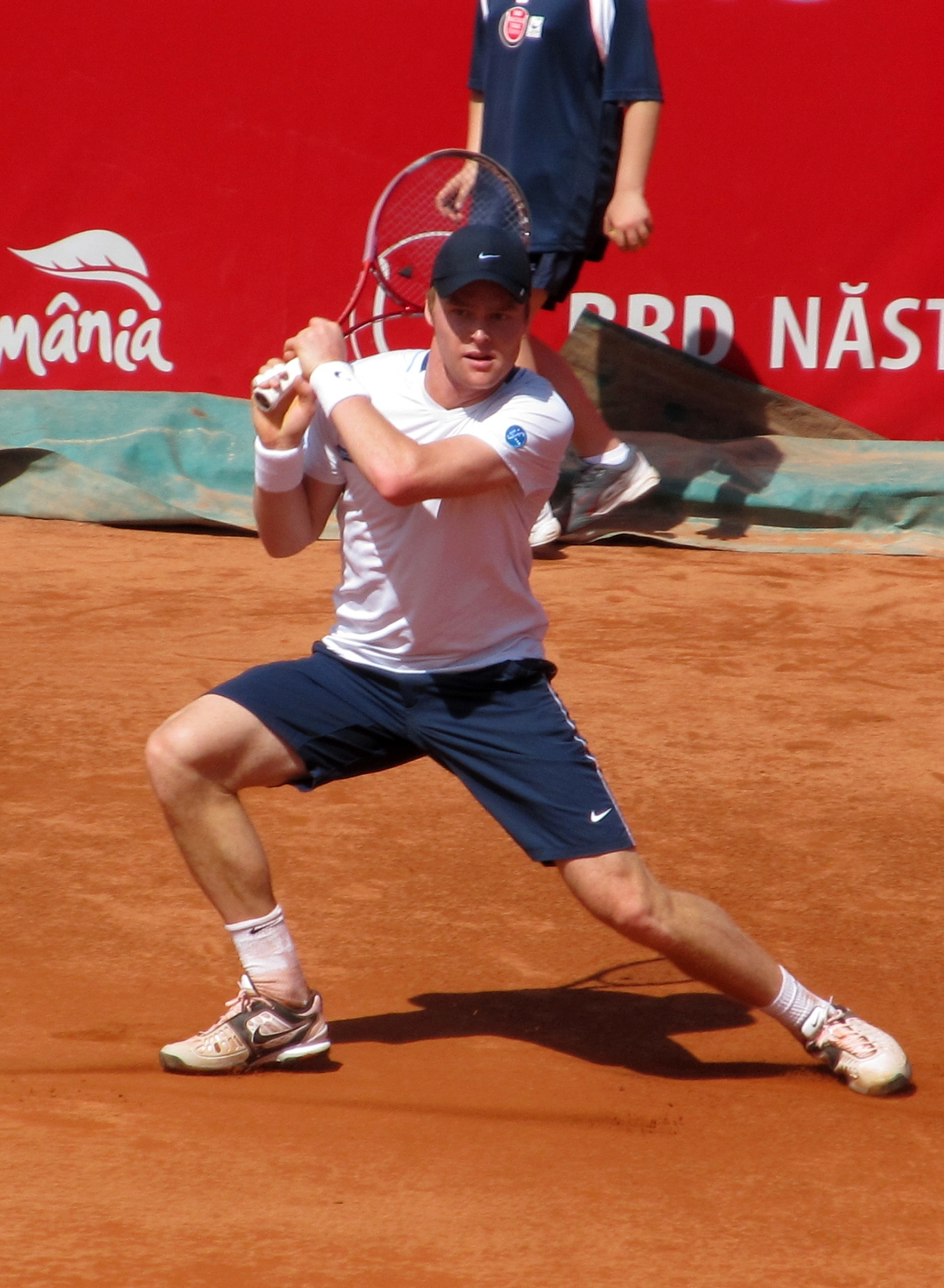 Jürgen Zopp playing in the first qualifying round of the 2012 BRD Năstase Țiriac Trophy against Timo Nieminen